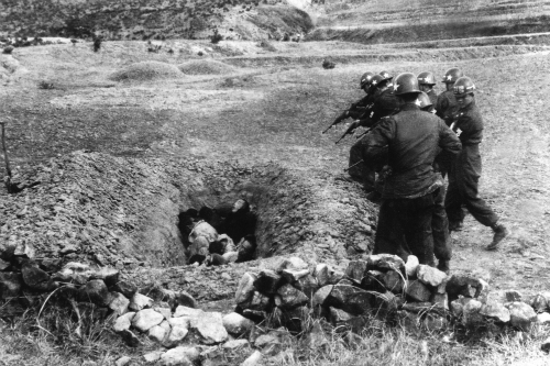 South Korean troops shoot political prisoners near Daegu, South Korea in April 1951. (AP/National Archives/U.S. Army)